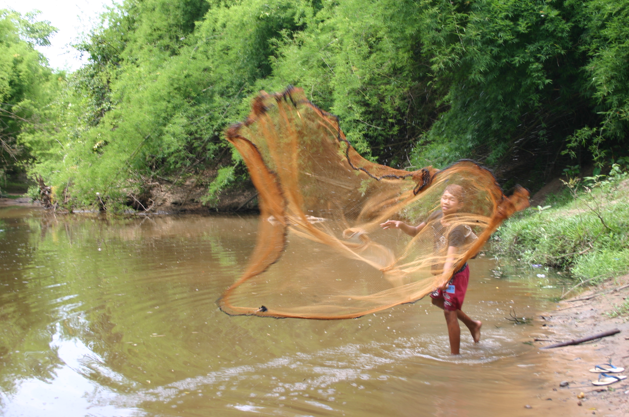 A young man in Savannakhet province of Laos casts a fishing net. He is Katang, one of the 49 ethnic groups recognized by the Lao government. Fishing is a major source of protein for most people in rural Laos.